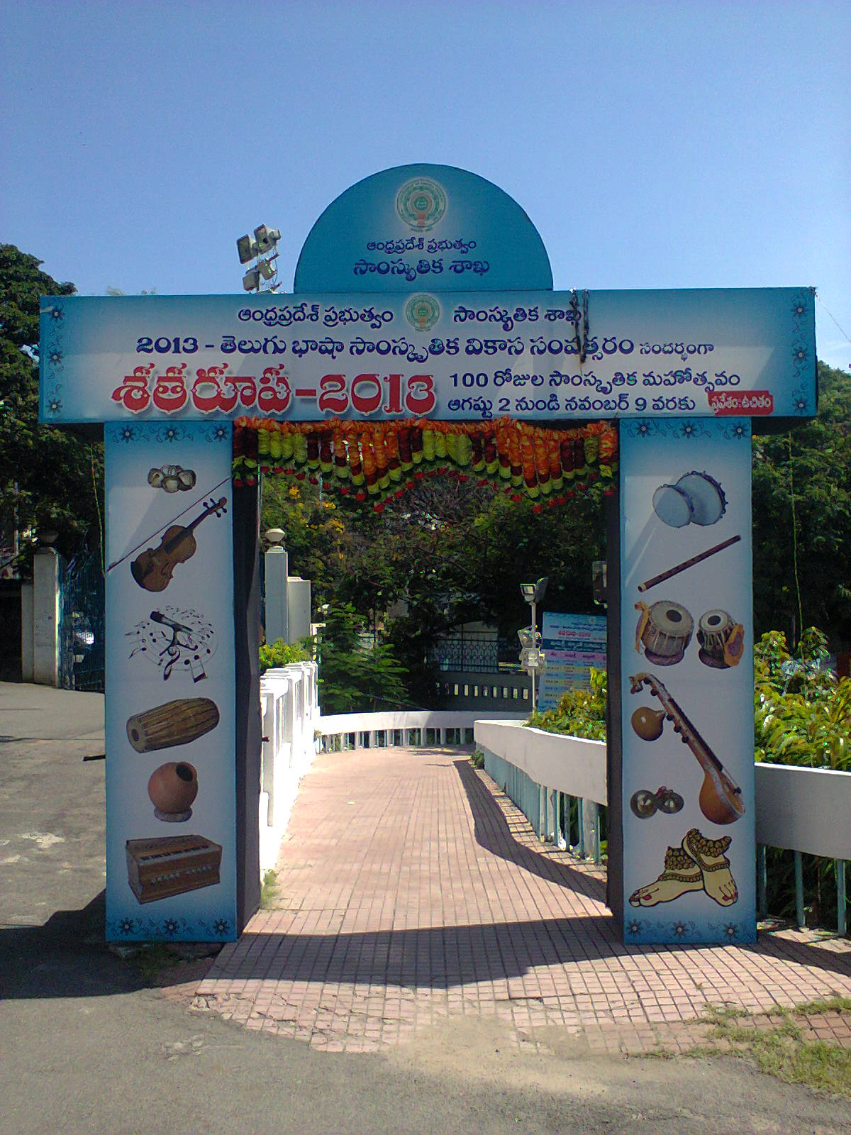 శతరూప-2013 తోరణం